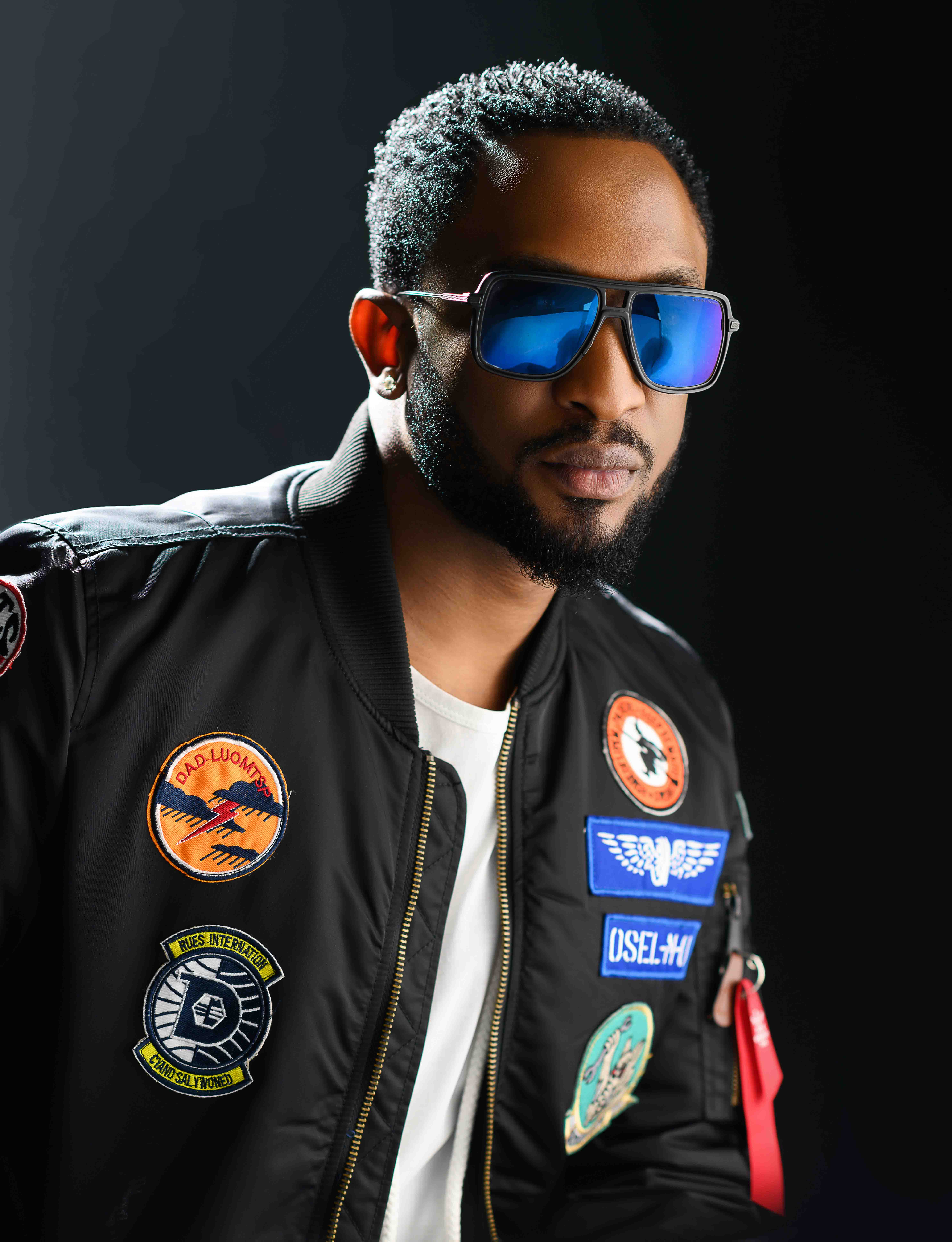 A studio photography portrait of Dare Art Alade by Kelechi Amadi-Obi